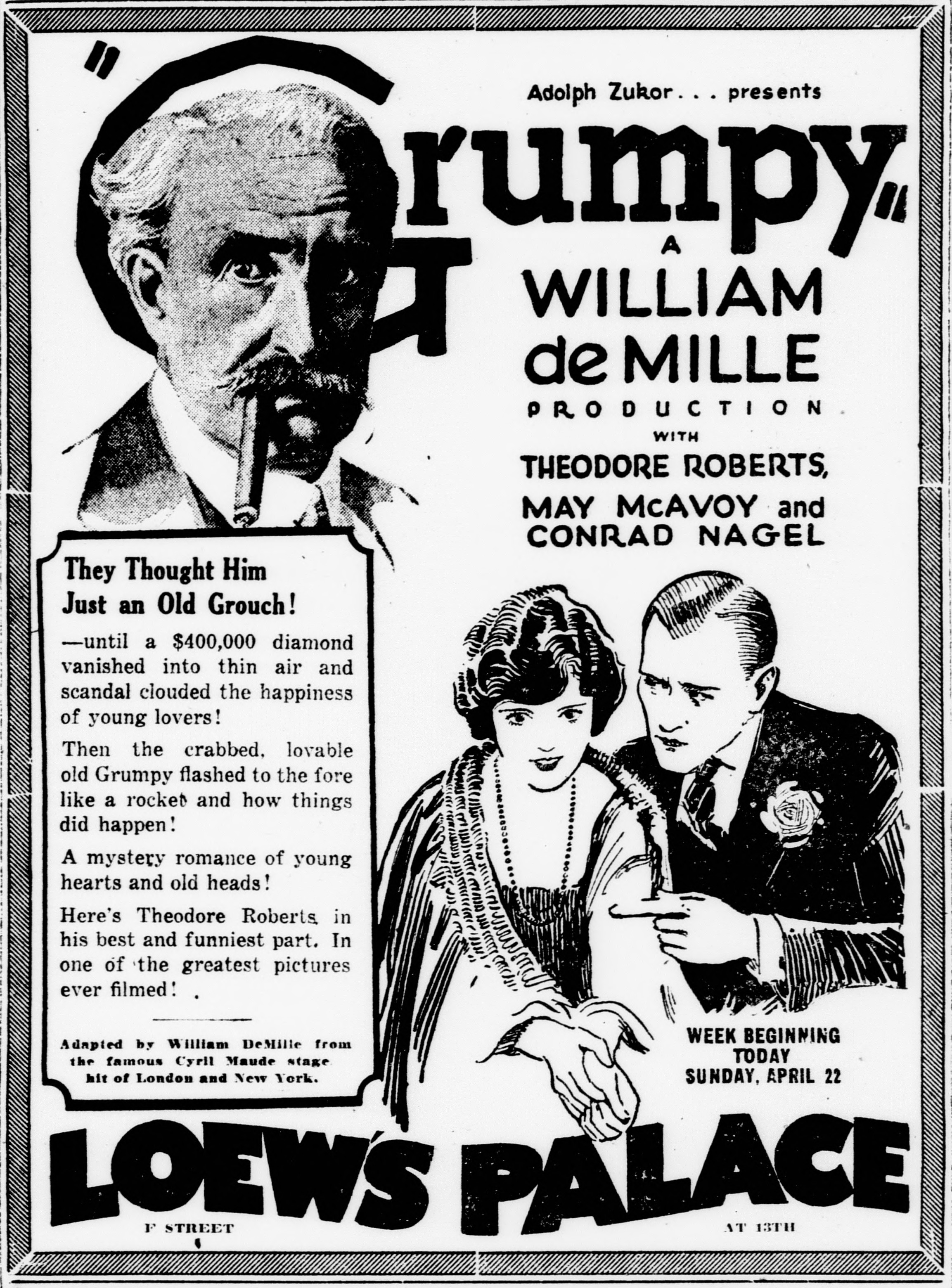 Newspaper advertisement for the Grumpy is a 1923 silent film drama distributed by Paramount Pictures, from the Evening Star.